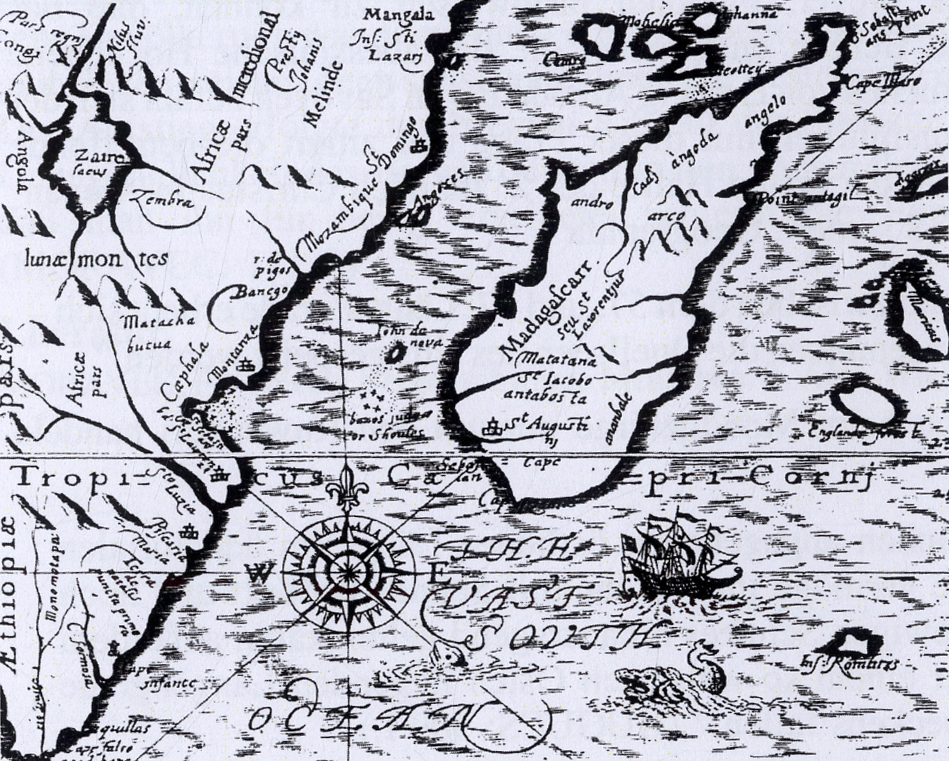 "Lunae montes" (Rwenzori?) in a map from Thomas Herbert: Some yeares travels into divers parts of Asia and Afrique : describing especially the two famous Empires, the Persian, and great Mogull ... as also ... Kingdomes in the Orientall India, and other parts of Asia; together with the adjacent Iles. Rev. and enlarged by the author. Jacob Blome and Richard Bishop, London 1638